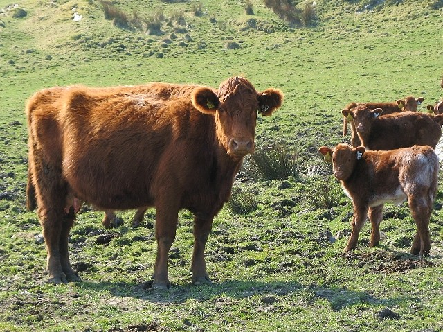 Luing cattle The Luing breed was developed on the island of Luing in the 1940s, and recognised as a breed in 1965. They are hardy beef cattle - more information available at